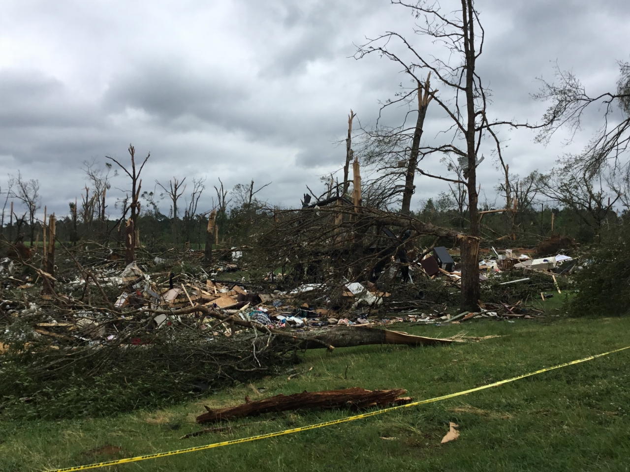 Denuded and partially debarked trees and debris from an obliterated mobile home near Sartinville, Mississippi.